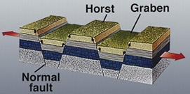 geological structure of horst and graben.